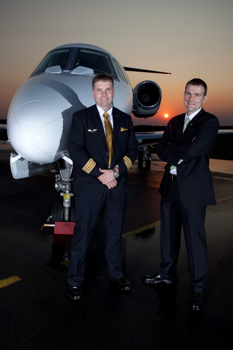 Management of the germany company Fairjets